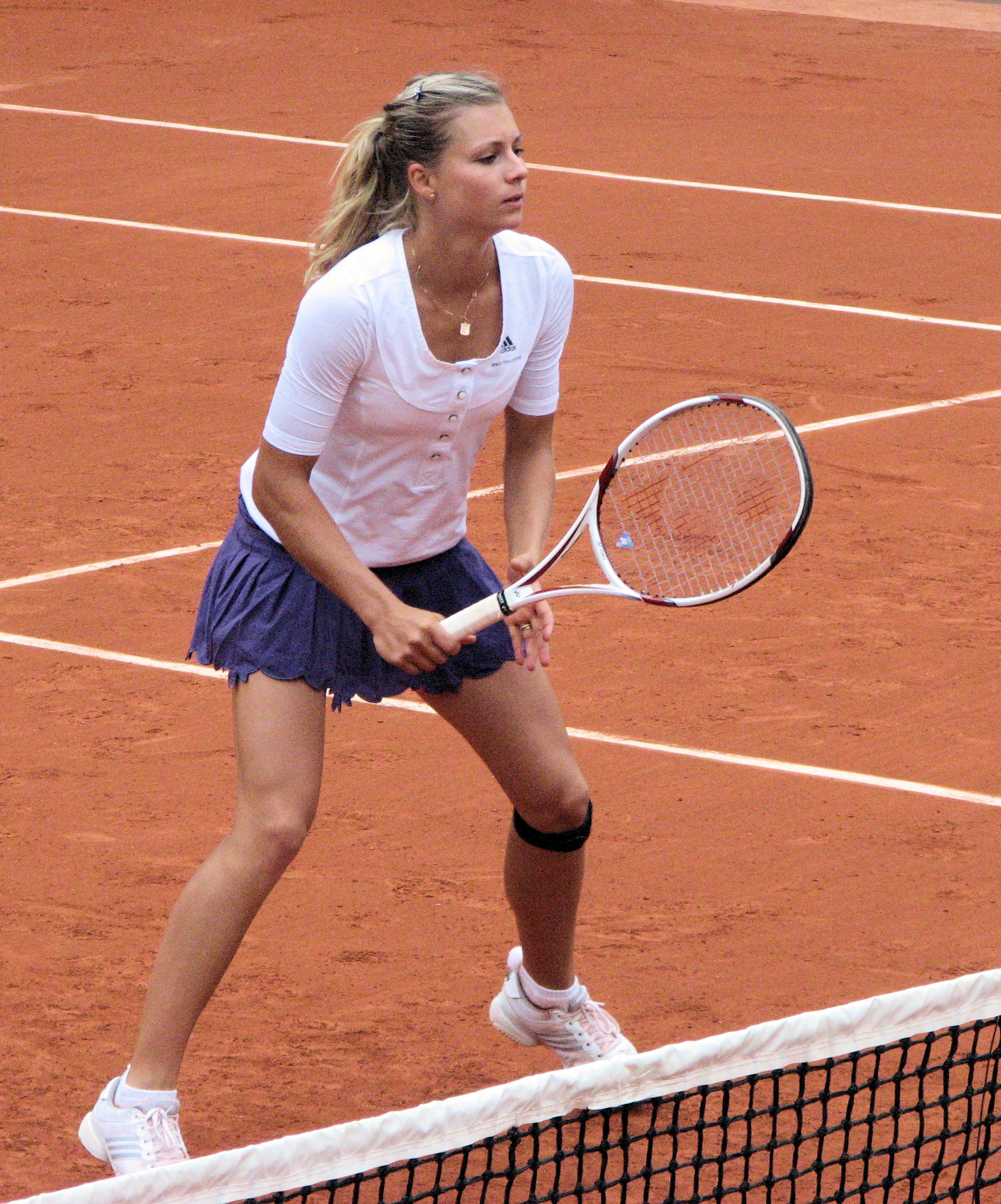 Maria Kirilenko at the French Open (2009)